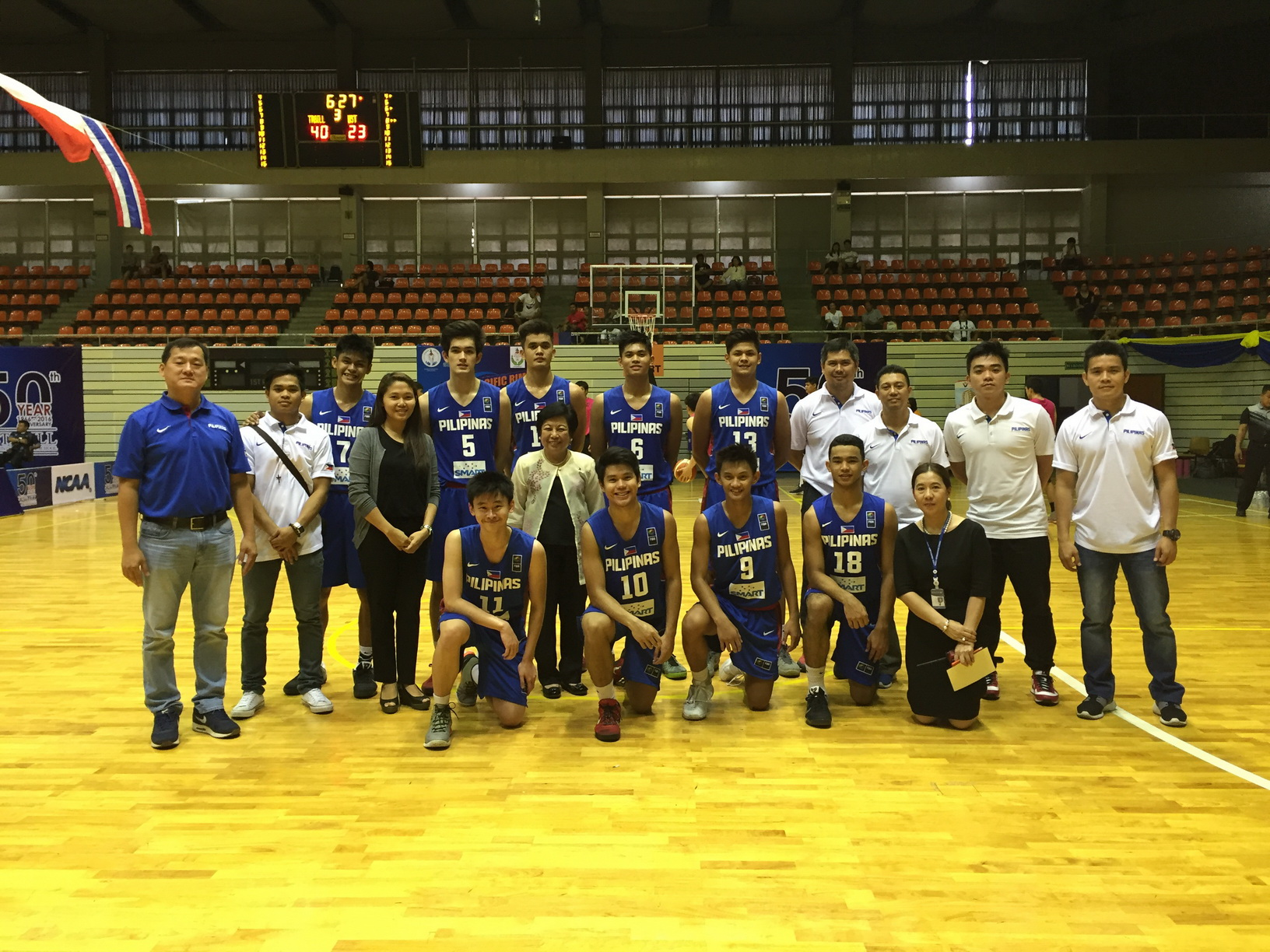 Batang Gilas U19 Team with their Coaches and Manager, Mr. Andrew Teh.